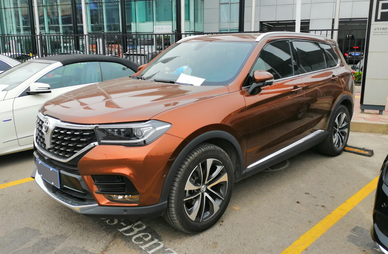 Brilliance V7 photographed in Beijing, China.